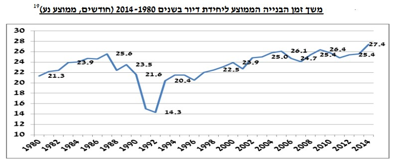 money